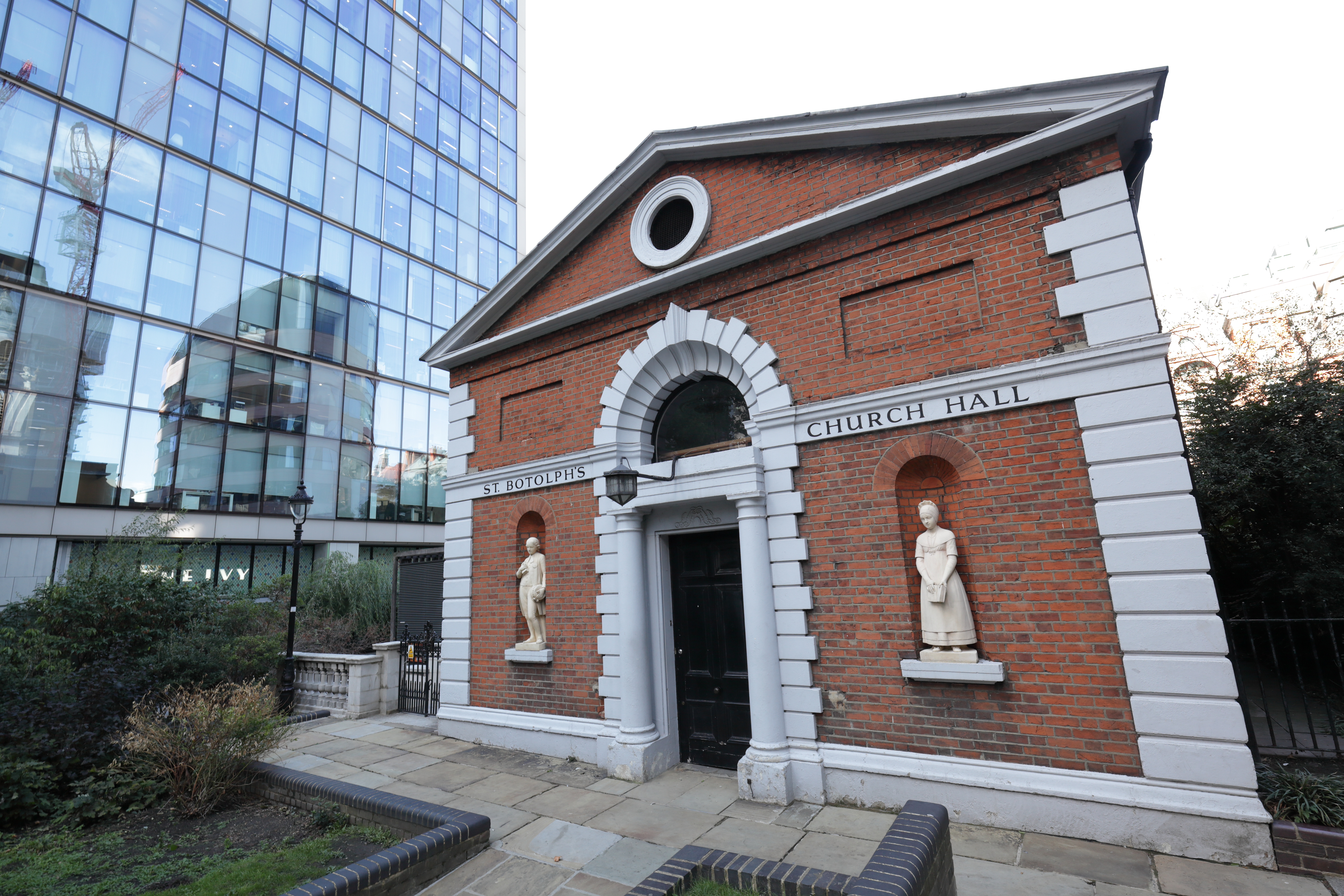 St Botolphs Church Hall Wikidata has entry Q27085945 with data related to this item.